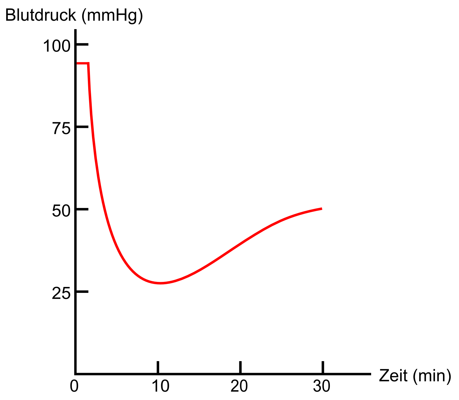 Blood pressure of an anaesthesized rat after the injection of crude Varanus varius venom (1 mg/kg). Modified from: B. G. Fry, N. Vidal, J. A. Norman, F. J. Vonk, H. Scheib, S. F. R. Ramjan, S. Kuruppu, K. Fung, S. B. Hedges, M. K. Richardson, W. C. Hodgson, V. Ignjatovic, R. Summerhayes & E. Kochva (2006): Early evolution of the venom system in lizards and snakes. Nature 439: 584-588. Figure 2b It was redrawn using Inkscape, and then transformed into png. It might not be 100 % accurate, but quite accurtate.